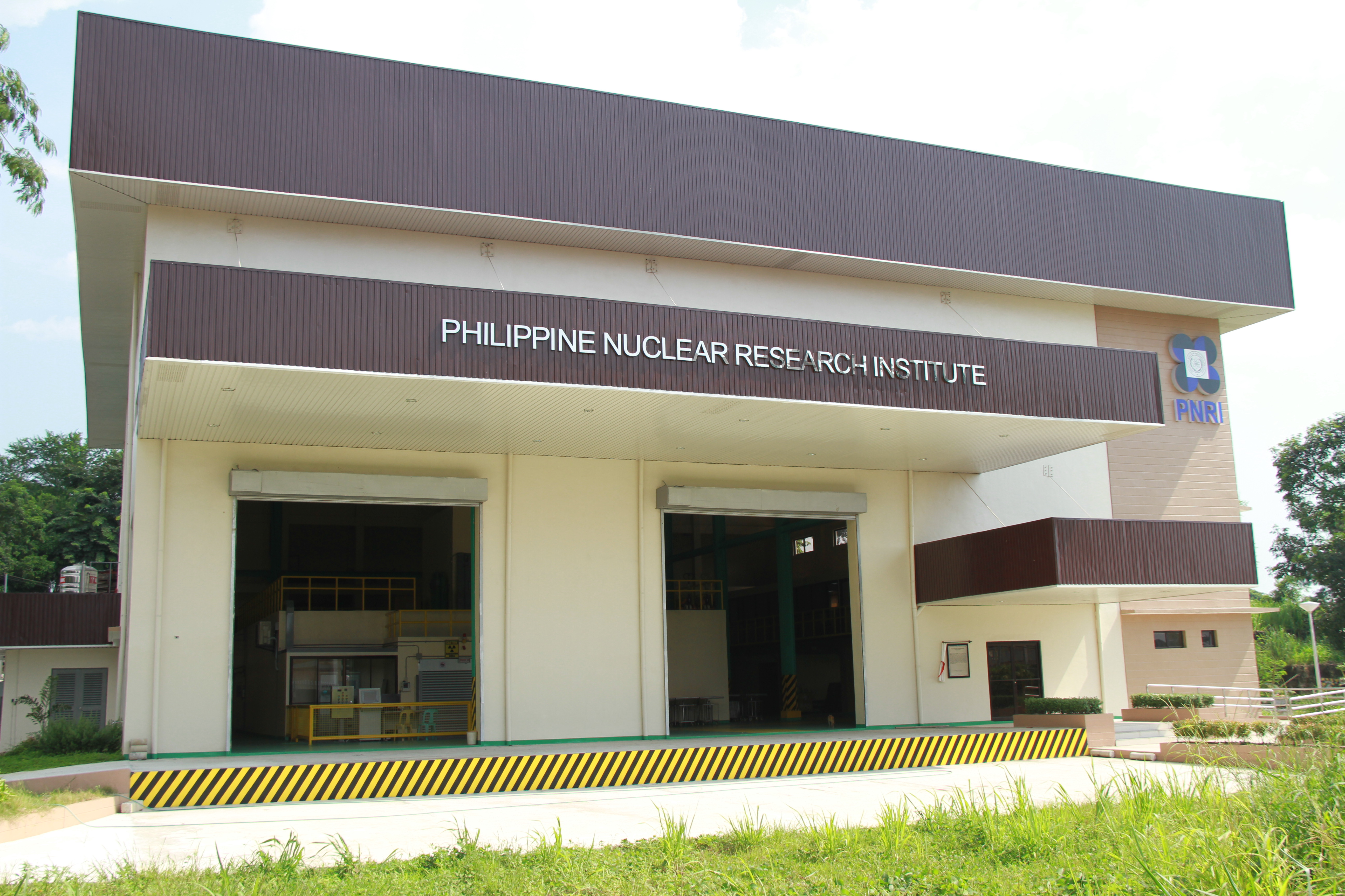 The Electron Beam Irradiation Facility found in the PNRI grounds